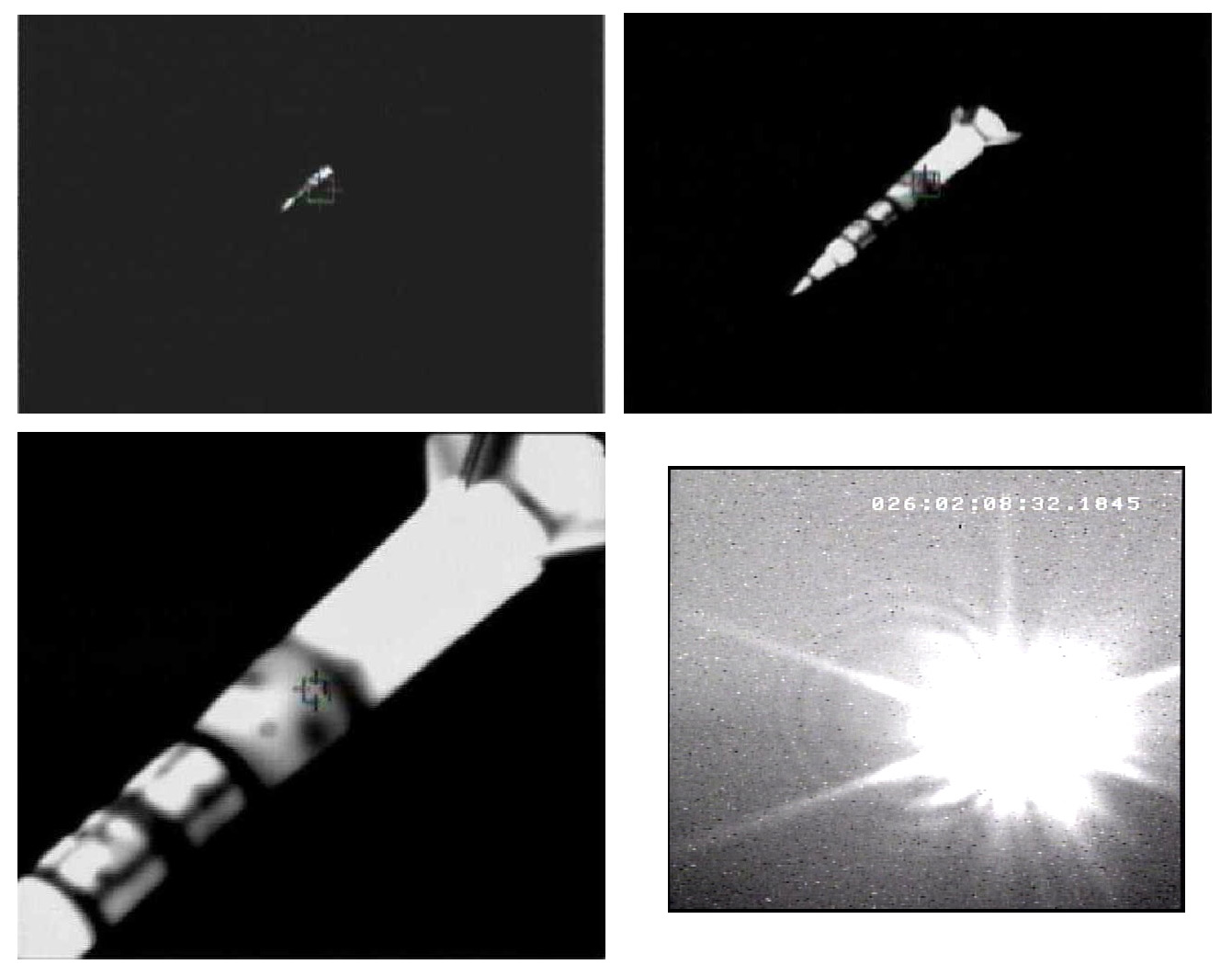 SM-3 target images